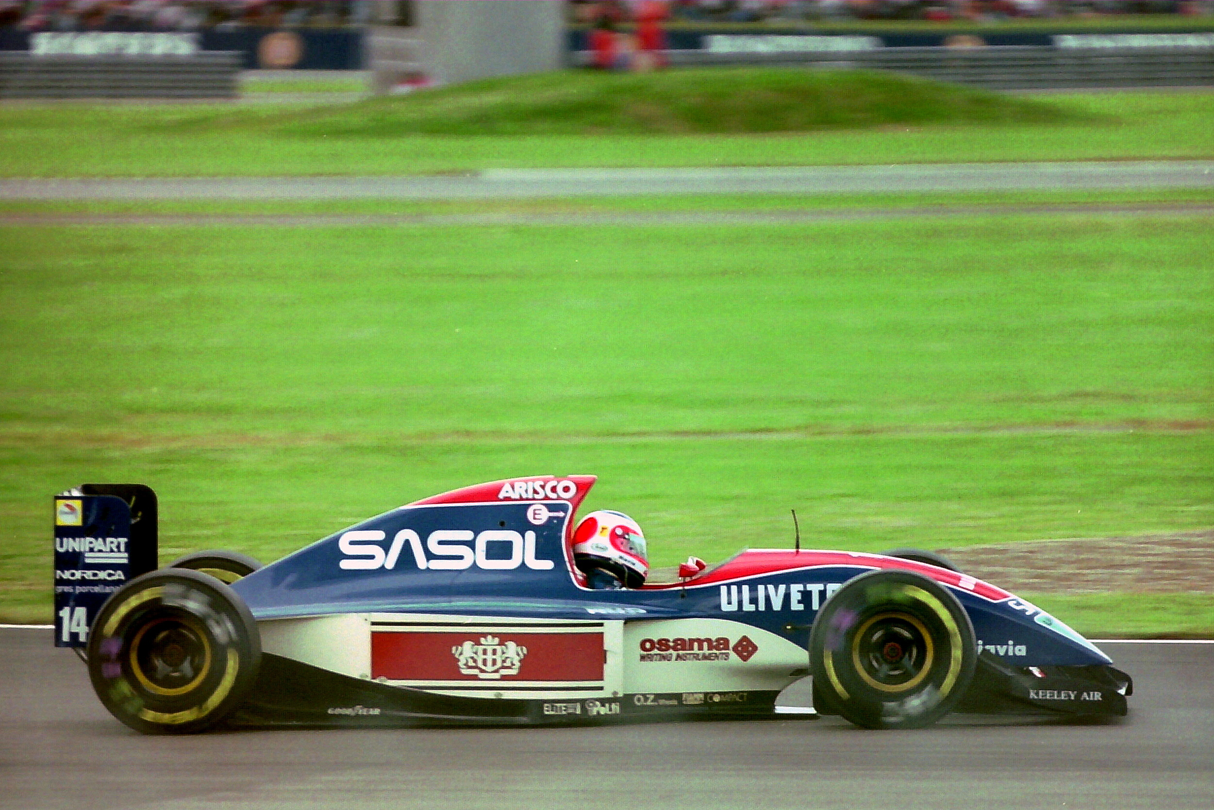 Rubens Barrichello - Jordan 193 at the 1993 British Grand Prix